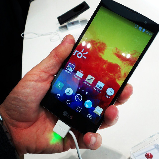 LG Magna